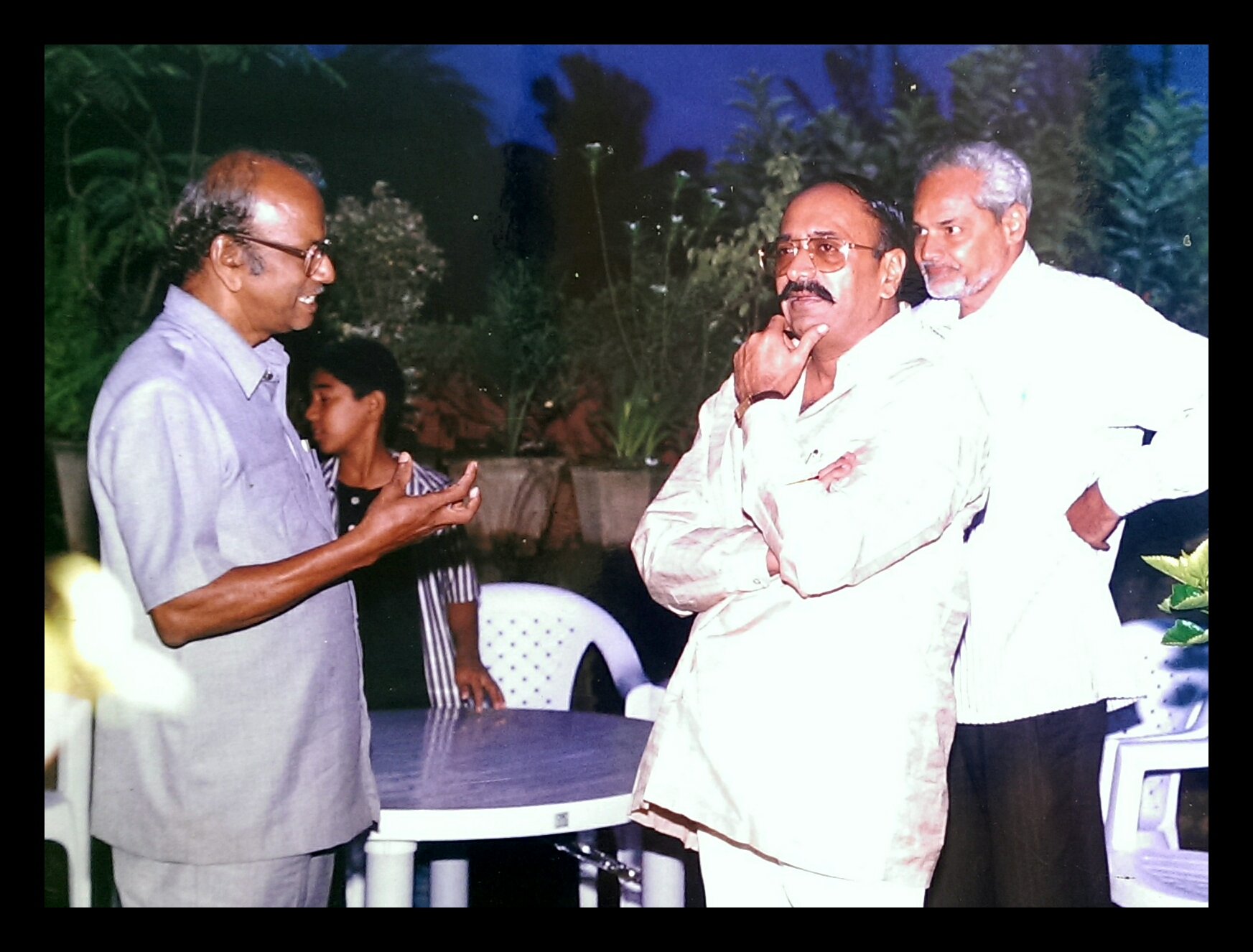 Mr. Veerkumar Patil, Minister for Power and Energy in Karnataka with V.V.Shenoy. He visited the garden on 22-8-2000.